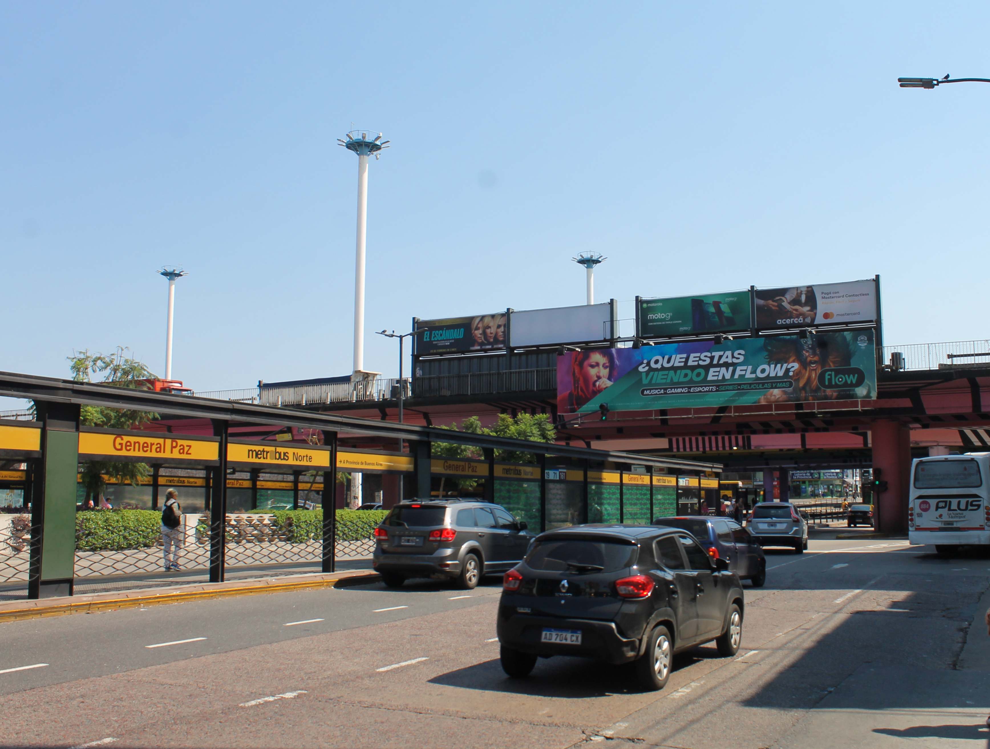 View of Puente Saavedra from Cabildo Avenue